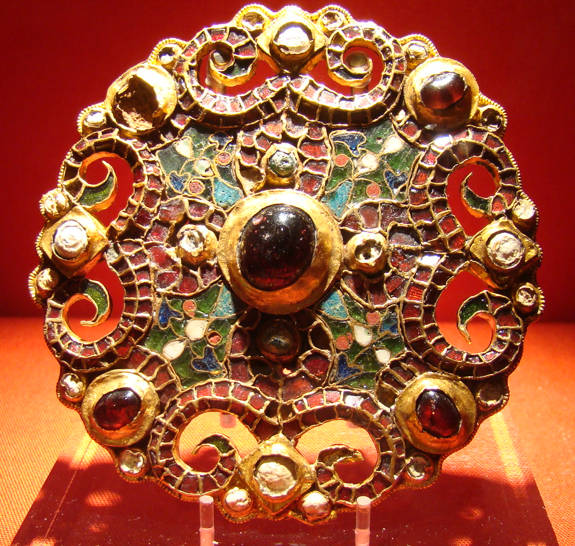 Fibula of ca 800 A.D. found in a well at Dorestad/Wijk bij Duurstede, now in the Rijksmuseum v. Oudheden, Leiden. Fibula is probably created in Burgundy